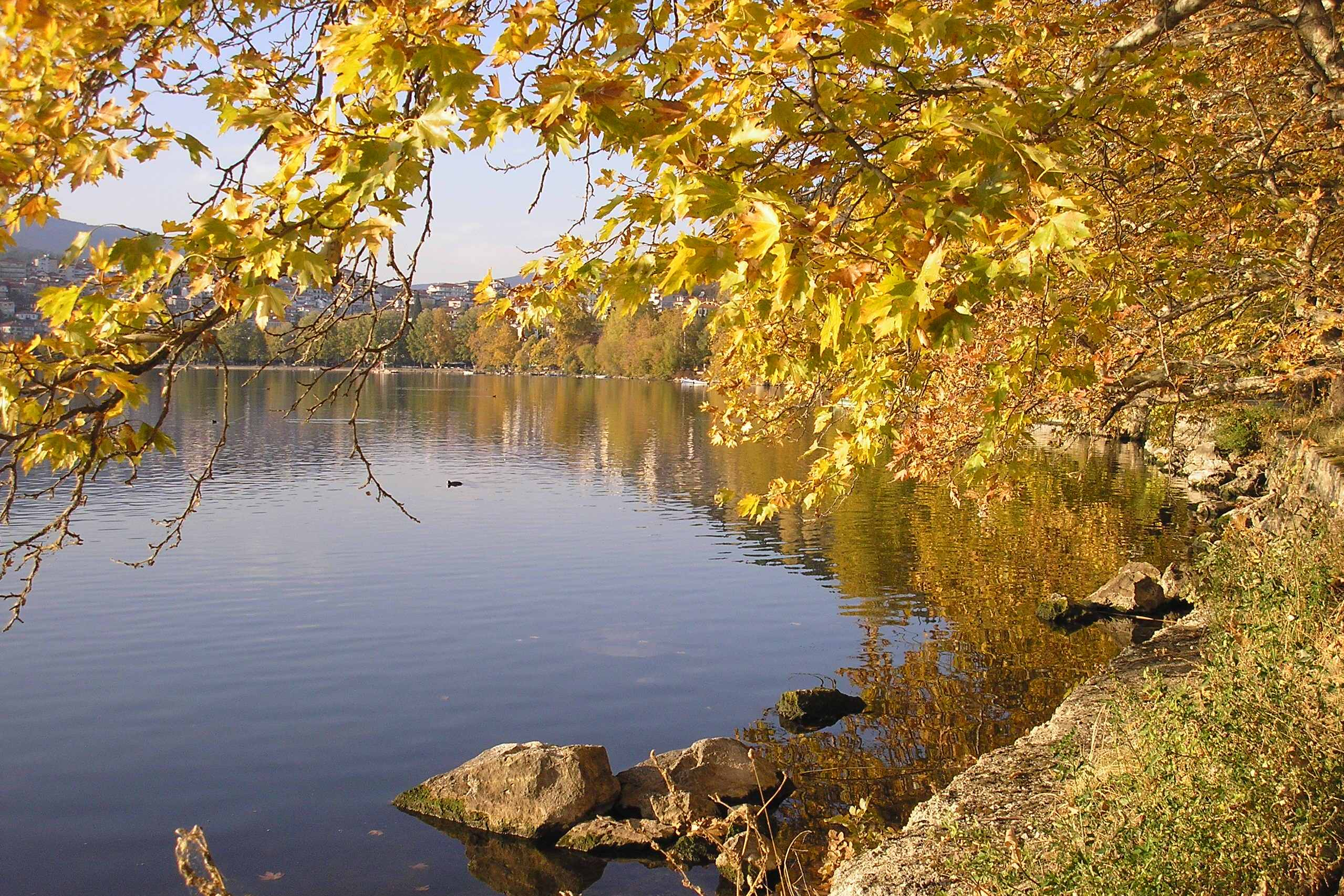 This is a photography of Natura 2000 protected area with ID GR1320001